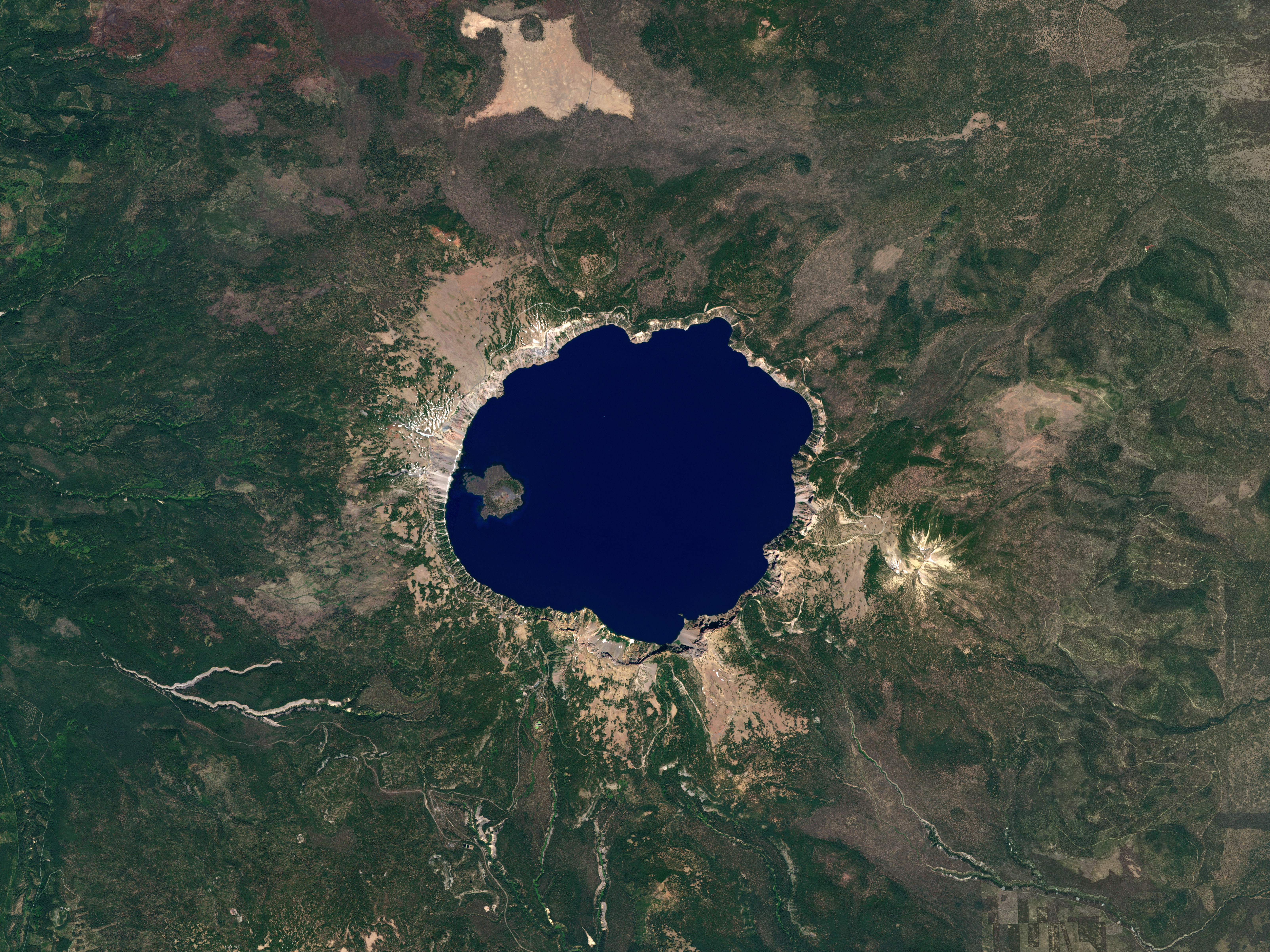 Crater Lake, Oregon, USA July 28, 2016 Around 7,700 years ago, Mount Mazama erupted in Oregon, disgorging 15 cubic miles of magma over the western United States. It took a quarter of a millennium of snow and rain to fill the caldera with the serene waters wanderlust hikers now know as Crater Lake. Image from a RapidEye satellite.